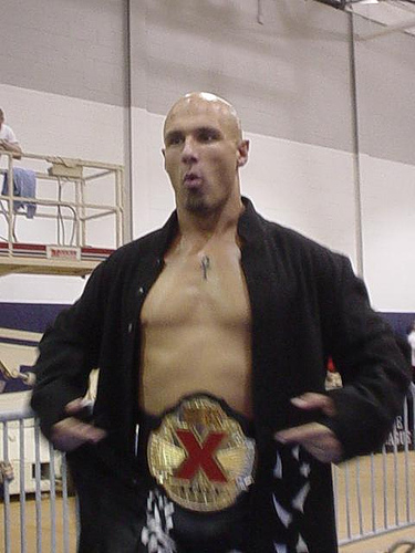 Professional wrestler Christoper Daniels with the TNA X Division Championship in March 2005